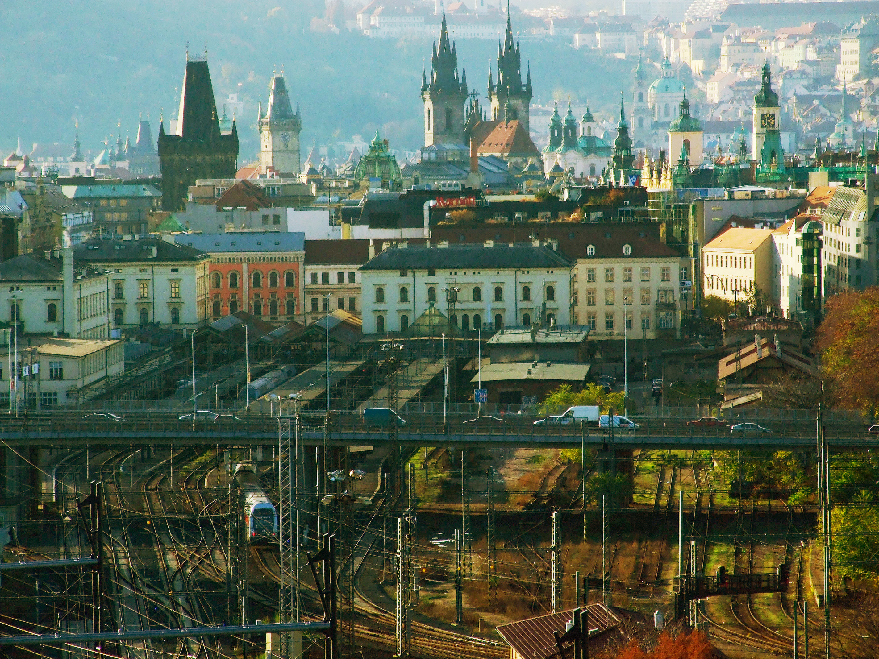 Masarykovo nádraží train station, Prauge, CZhelp